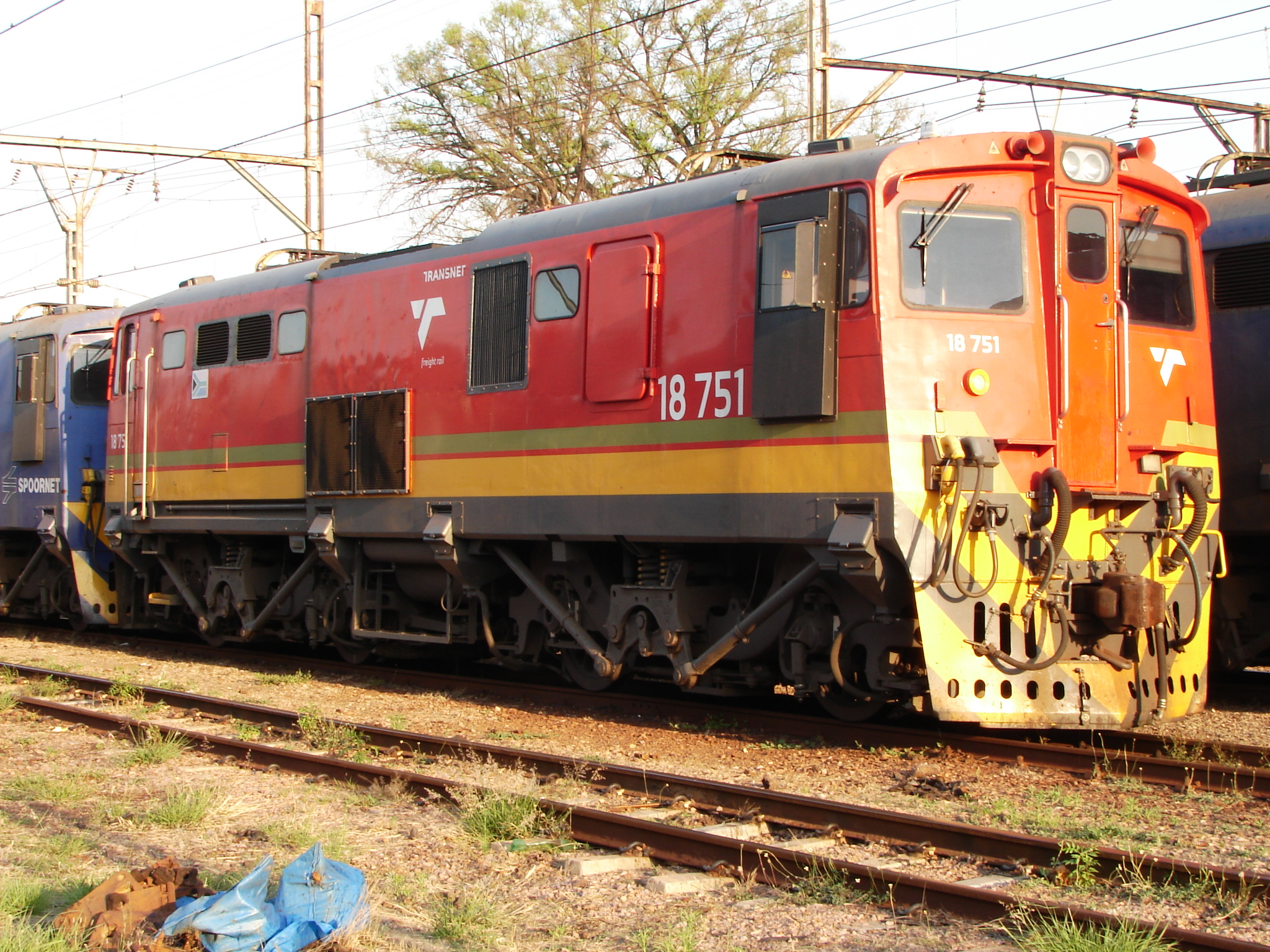 TFR Class 18E Series 2 no. 18-751Location: Capital ParkHistory: Rebuilt in 2013 from Class 6E1 Series 2 no. E1268